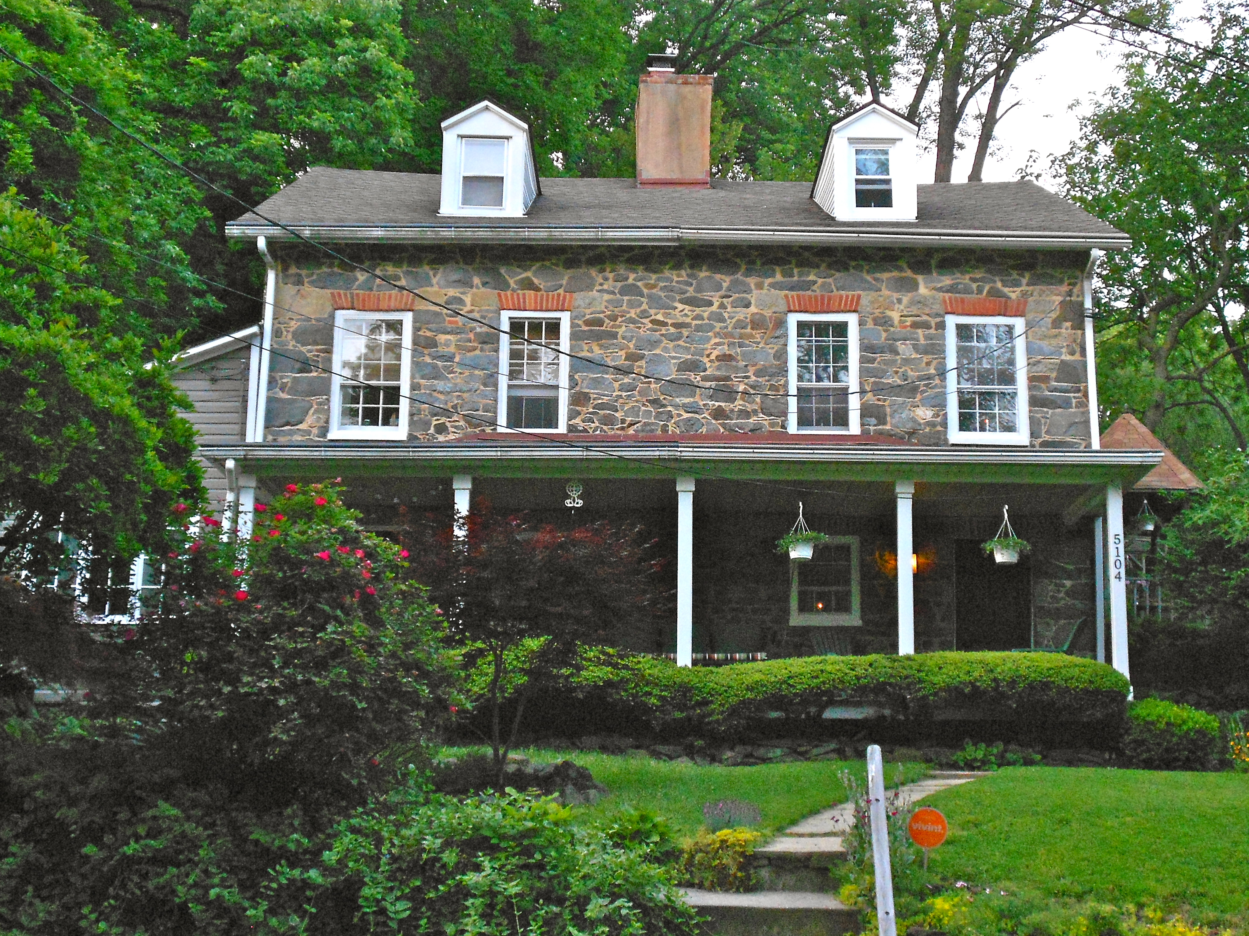 House on Franklintown Road in the Franklintown Historic District which was listed on the NRHP on November 11, 2001. The district includes 5100-5201 N. Franklintown Rd. (southern boundary), 1707-1809 N. Forest Park Ave., 5100 Hamilton Ave., and 5100 Fredwall Ave. in Baltimore, Maryland (western border)